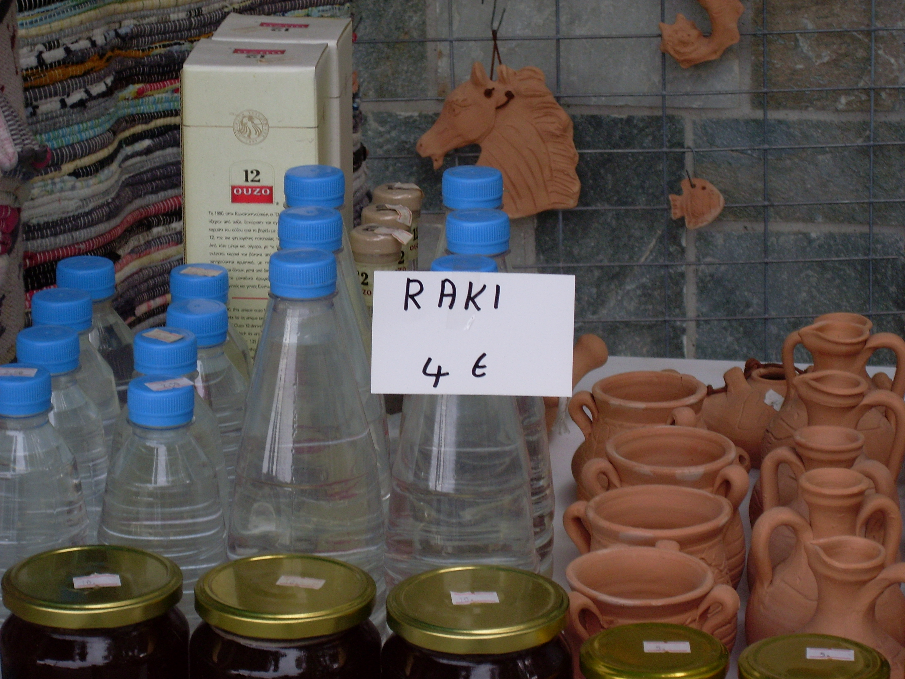 Raki sold in PET bottles